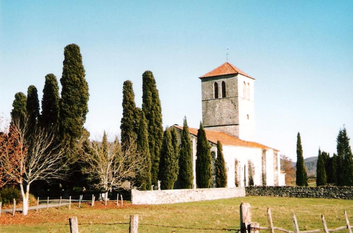 The Basilique Saint-Just de Valcabrère, near Saint-Bertrand-de-Comminges.